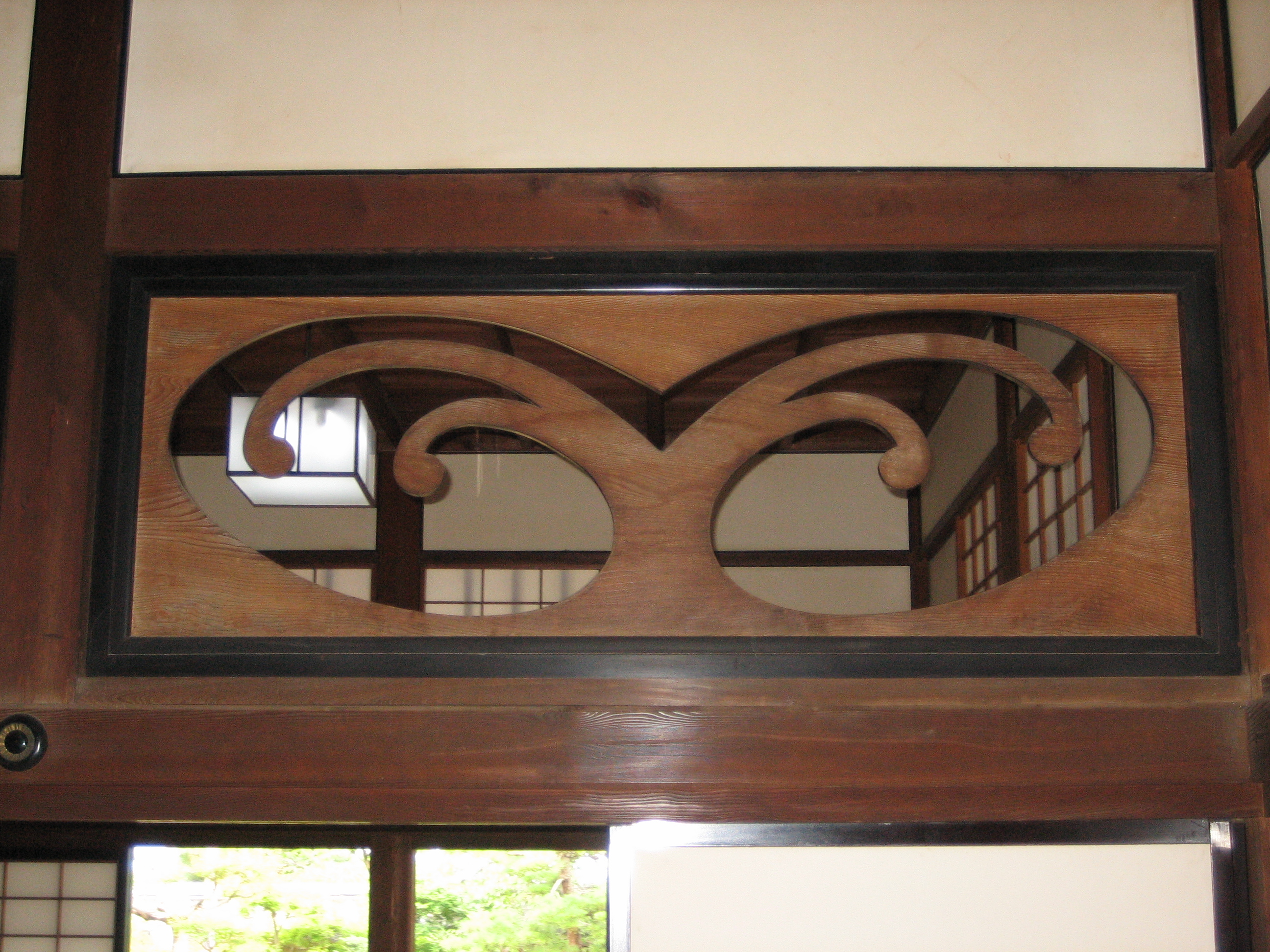 photo of designed ranma in the shape of the wave in castle proper palace